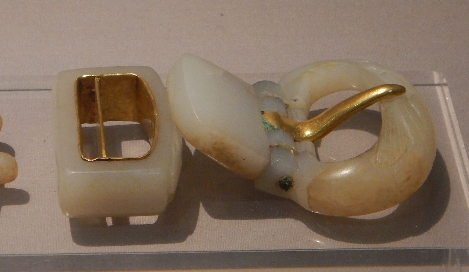 Gold belt buckle with white jade, found in the tomb of Prince Chuang of Liang (梁莊王, 1411-1441). Ming dynasty.